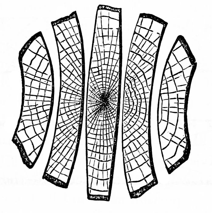 Cross section of dried lumber